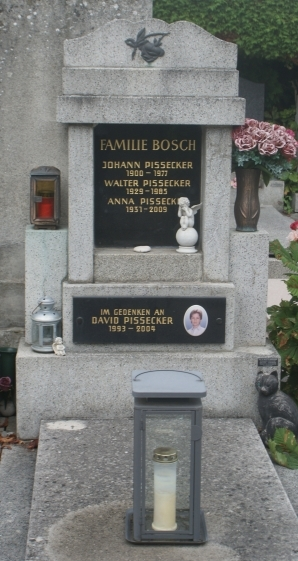 Friedhof Perchtoldsdorf-Walter Pissecker